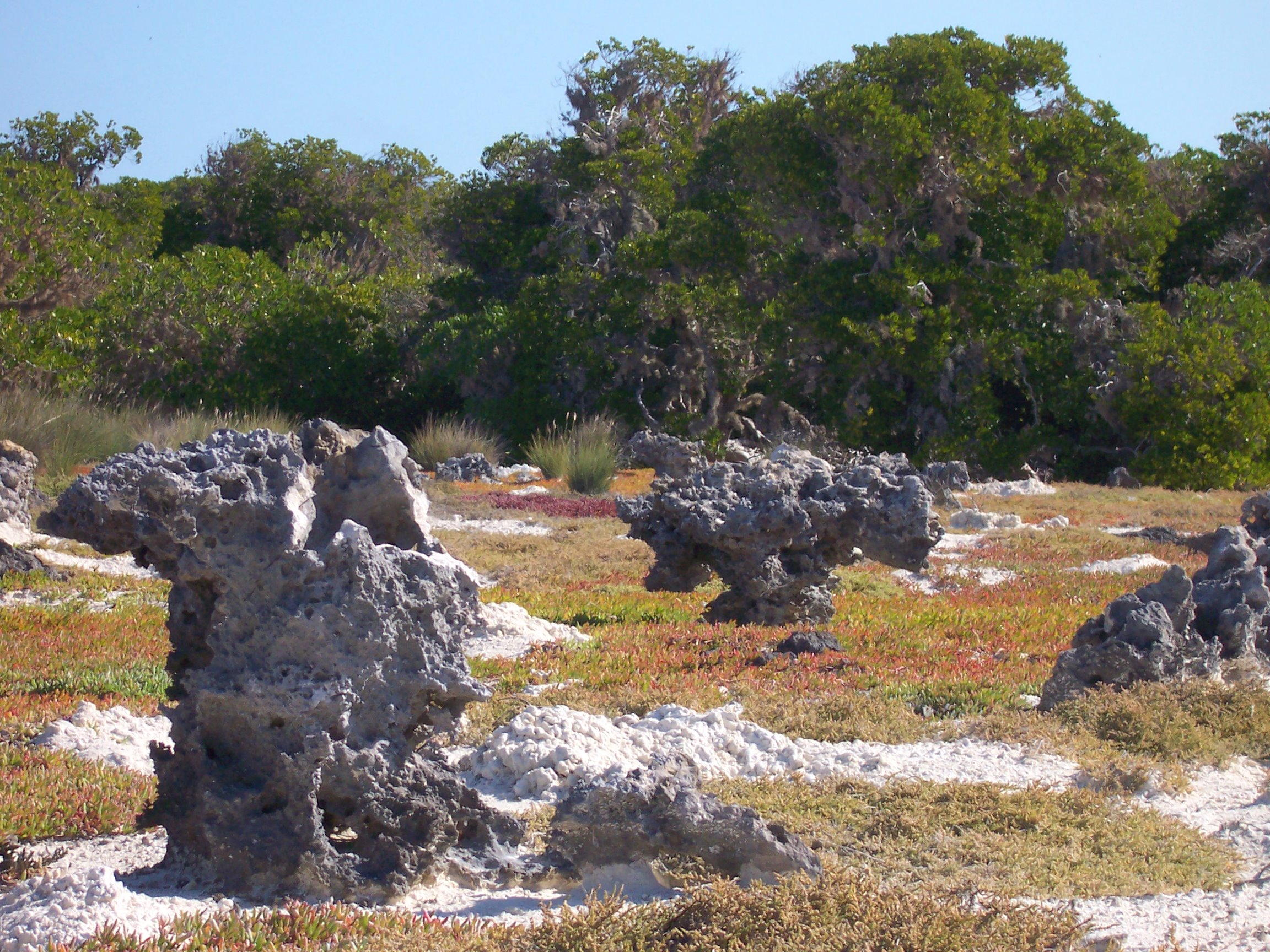 Coral "mushrooms" on Europa Island